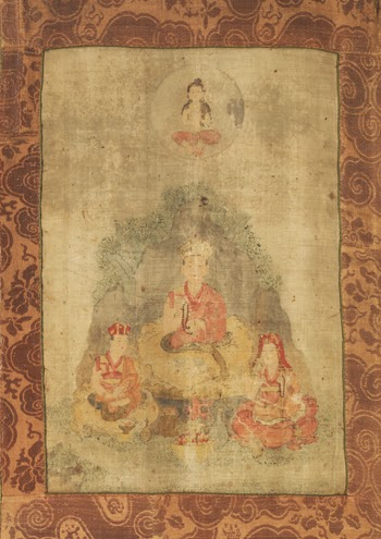 The 10th Karmapa painted this thangka while he was in exile in Lijiang and Gyalthang (in Yunnan, China), 1648-1671. It is a self-portrait. On the Karmapa's right is Kunto Zangpo (the Karmapa's faithful attendant for many years) and on the left is the Sixth Gyaltsab Norbu Zangpo. Chenrezig is depicted at the top.